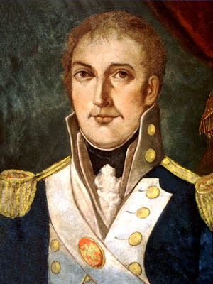 William C. C. Claiborne, Governor of Louisiana